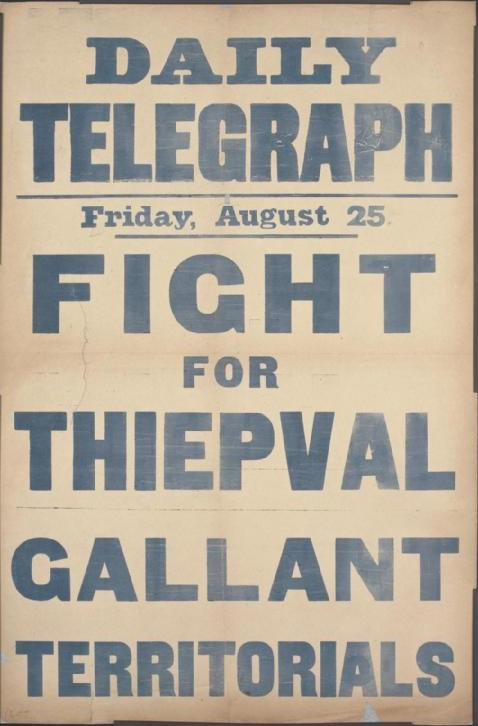 Placard for the Daily Telegraph, announcing British attack at Thiepval.